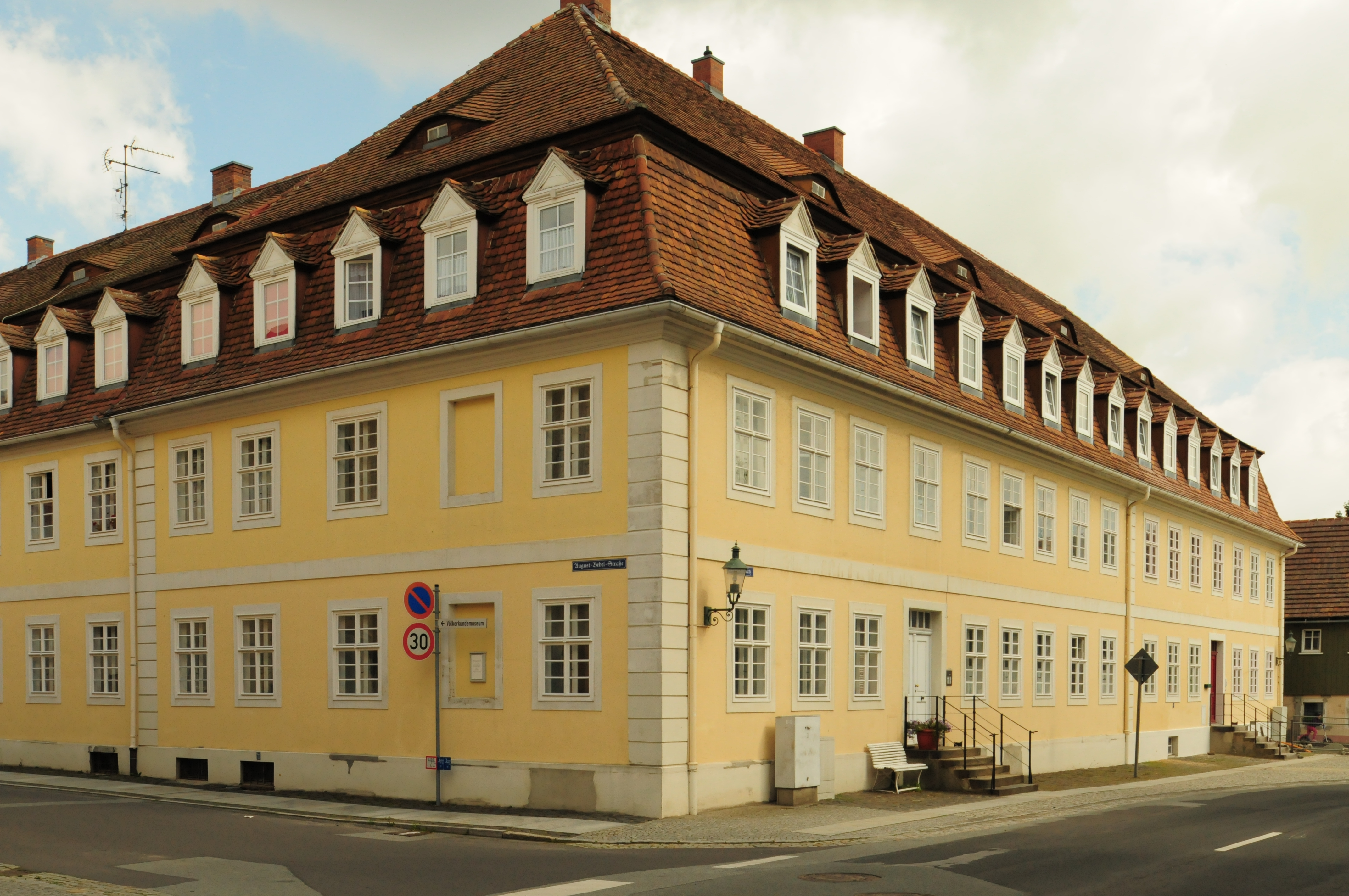 Herrnhut, Zinzendorfplatz 6/7 “Witwenhaus” (district Landkreis Görlitz, Free State of Saxony, Germany)